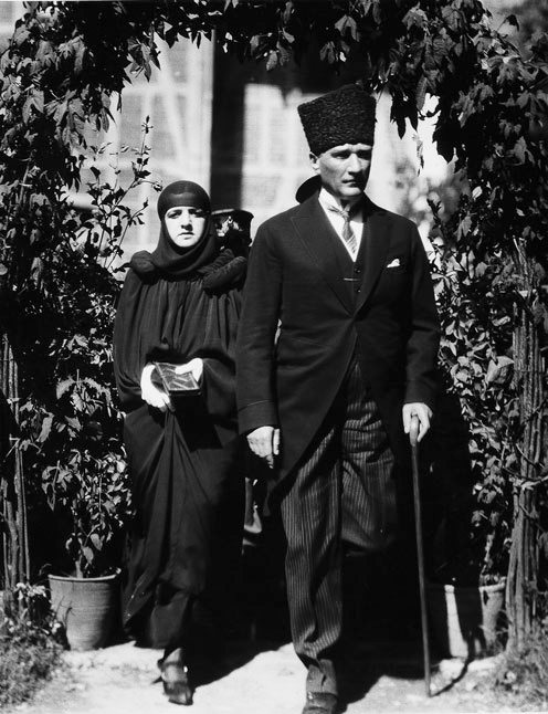 Mustafa Kemal Atatürk and his wife Latife Uşşaki during a trip to Bursa.